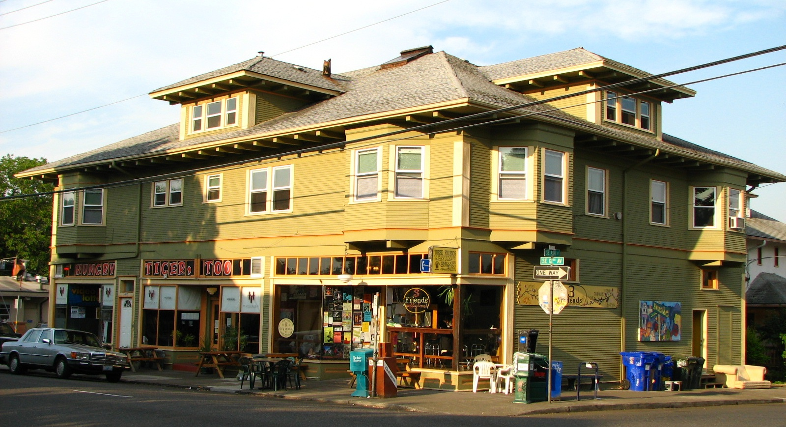 The historic Henry Kuehle Investment Property (built 1909), located at 201-213 Southeast 12th Avenue in Portland, Oregon, United States, is listed on the US National Register of Historic Places.